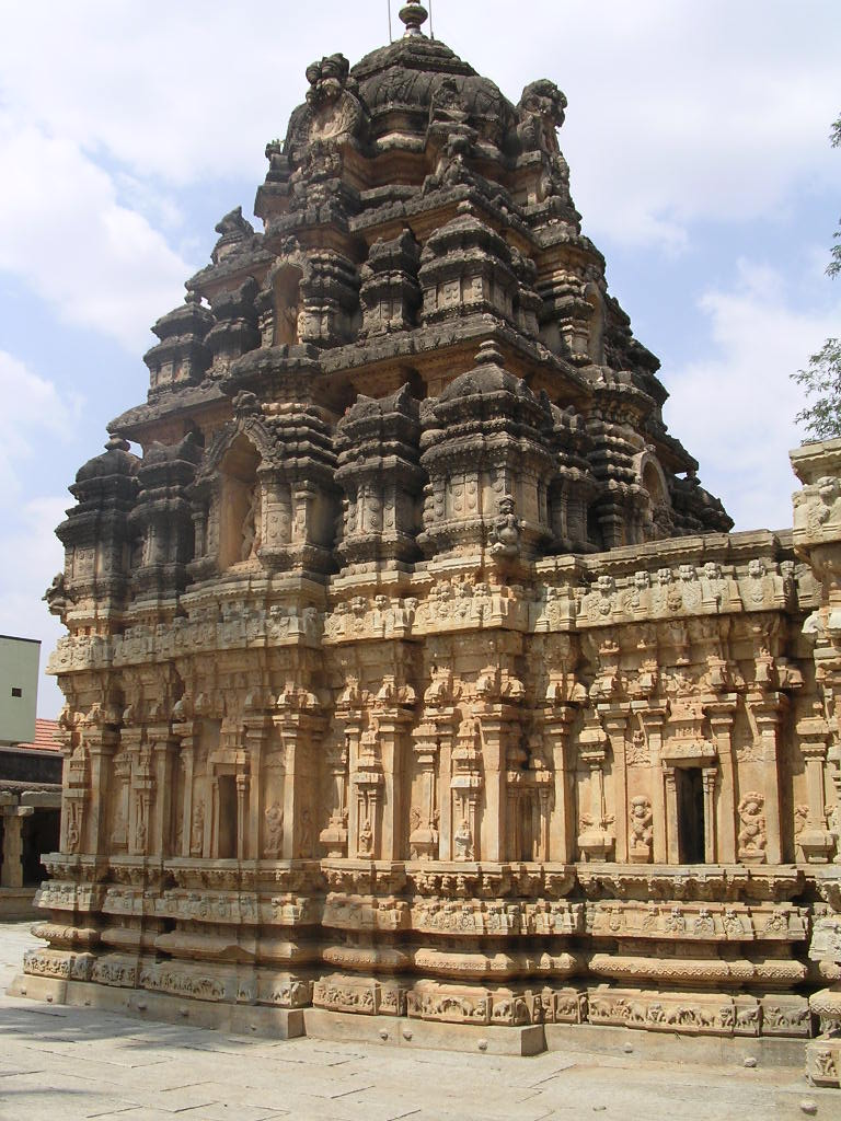 Kolaramma Temple